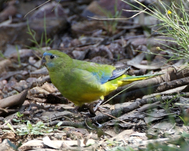 Turquoise Parrot (Neophema pulchella) in Capertee Valley, Blue Mountains, NSW, Australia. Photo taken on 10 February 2008. 690V1808